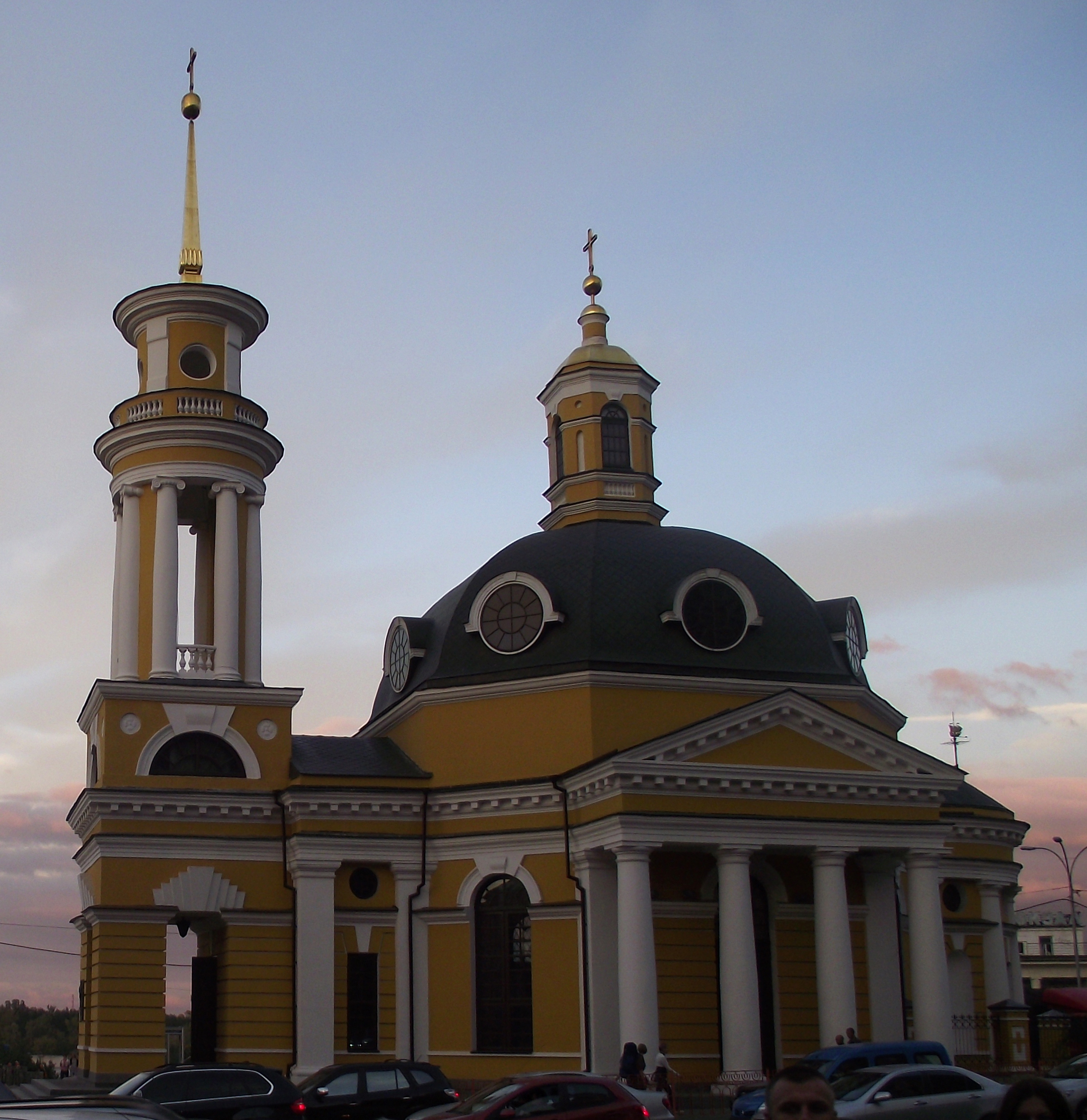 The Church Of The Nativity Of Christ. Built 1814р., the project А.меленского, demolished in 1935., retrieved 2005. It was in this Church stood the coffin with the body of the great poet Taras Shevchenko 6-8 may, 1861, on the way to the last resting place in Kaniv. Шевченком), що спочатку завантажив, потім подивився. Не заперечую, щоб фотографія не брала участь в конкурсі)